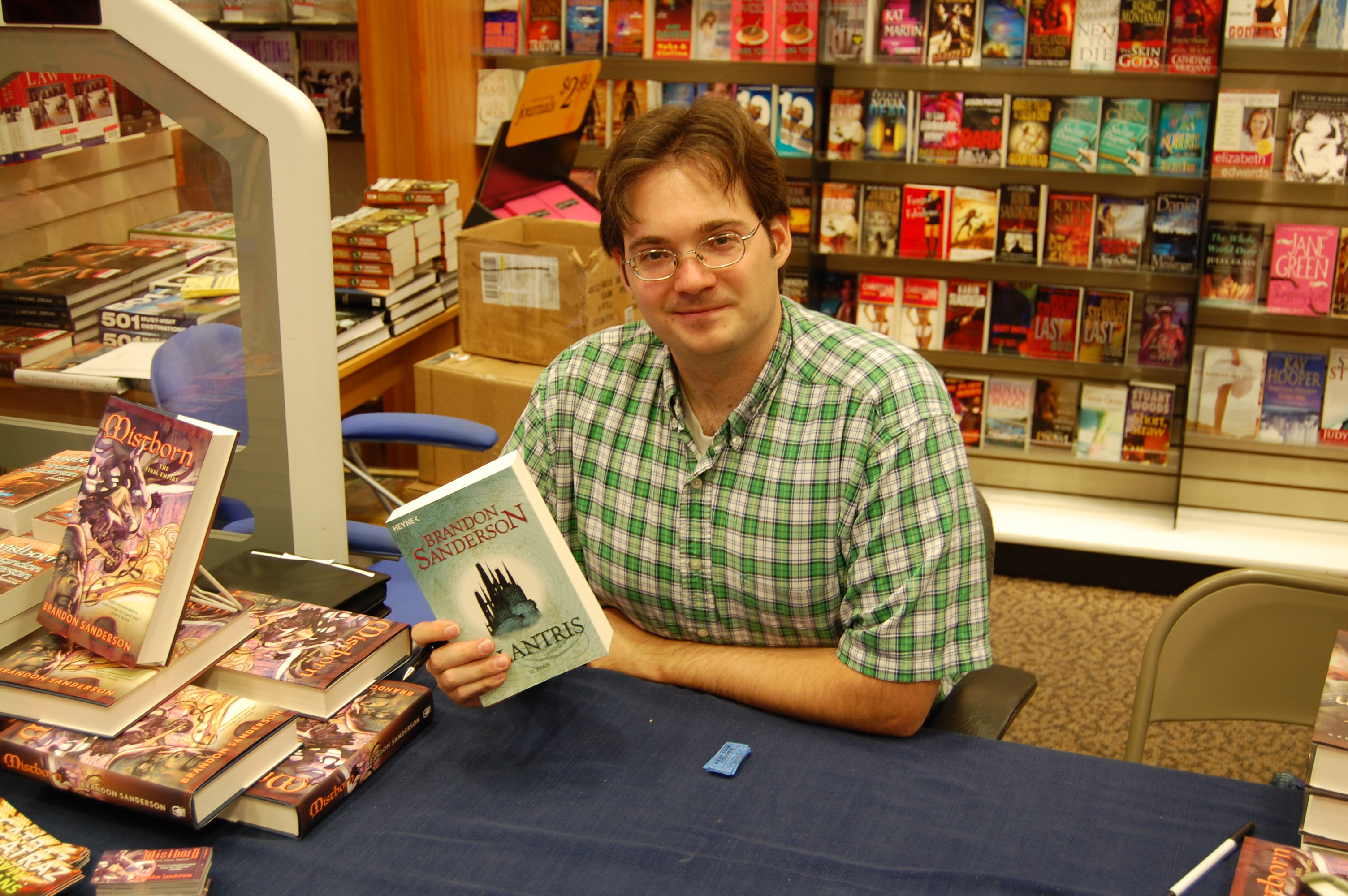 Brandon Sanderson holding a German-language copy of his fantasy novel Elantris on August 18, 2007 at the book pre-release event for Mistborn: The Well of Ascension at the Waldenbooks store in the Provo Towne Centre mall in Provo, Utah.